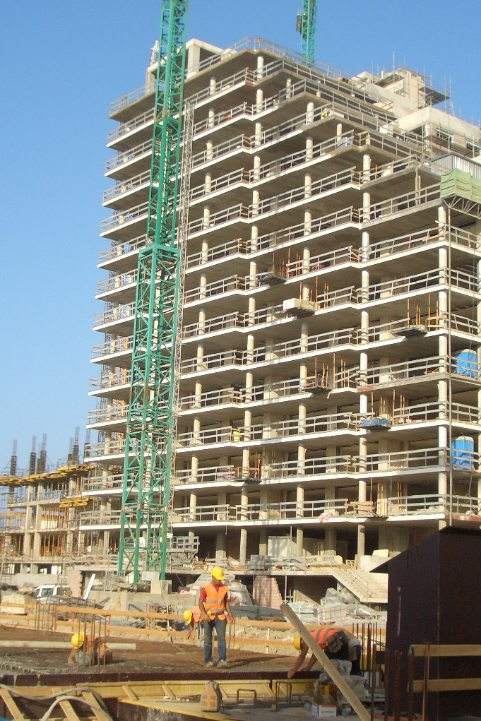 Construction Site